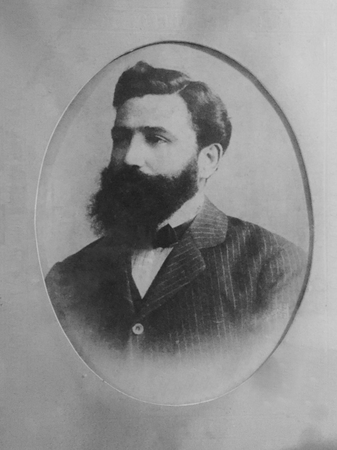 Фотографија Јована Цакића настала након робије, 1908. година